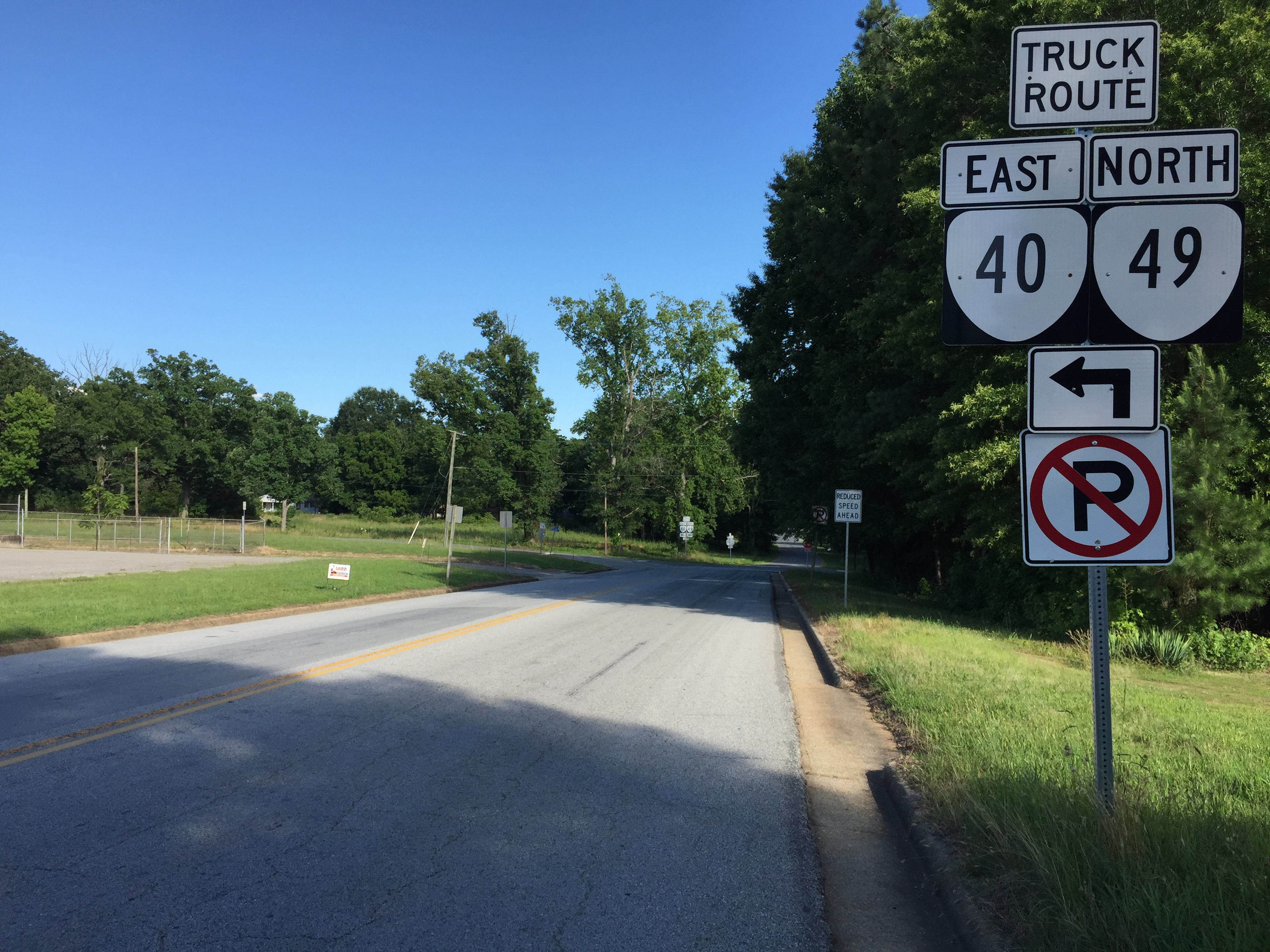 View east along Virginia State 40 Truck and north along Virginia State Route 49 Truck (Tidewater Avenue) at 5th Street in Victoria, Lunenburg County, Virginia